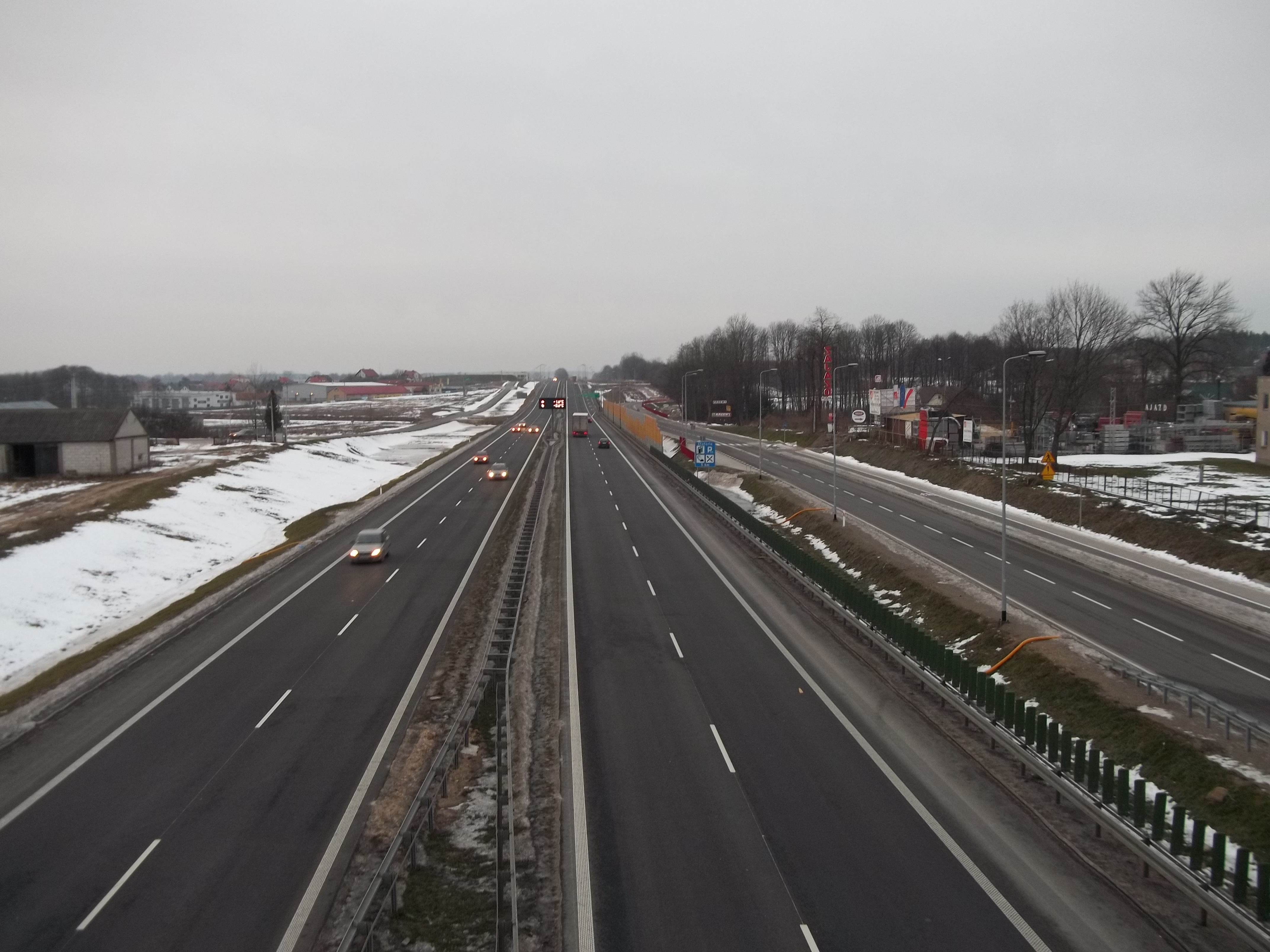 Expressway S8 in Choroszcz. Direction - Warsaw